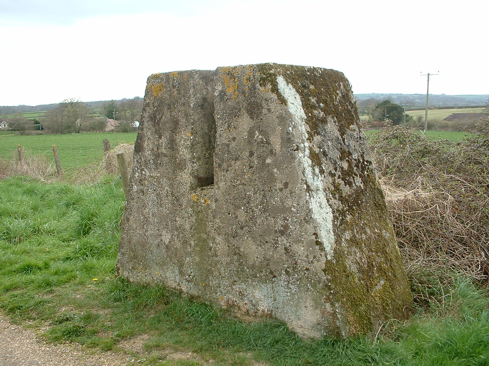 Railblock on the Taunton Stop Line near Donyatt, OS reference ST341137 One of a pair of blocks that allowed the railway line (now disused) to be blocked quickly by insetting a barrier such as a section of rail. The mass of concrete stands on a foundation and is about 5 feet high. There are several such railblocks nearby. The Rail Block was intended to stop enemy tracked vehicles from travelling along the railway route. OS reference ST341137